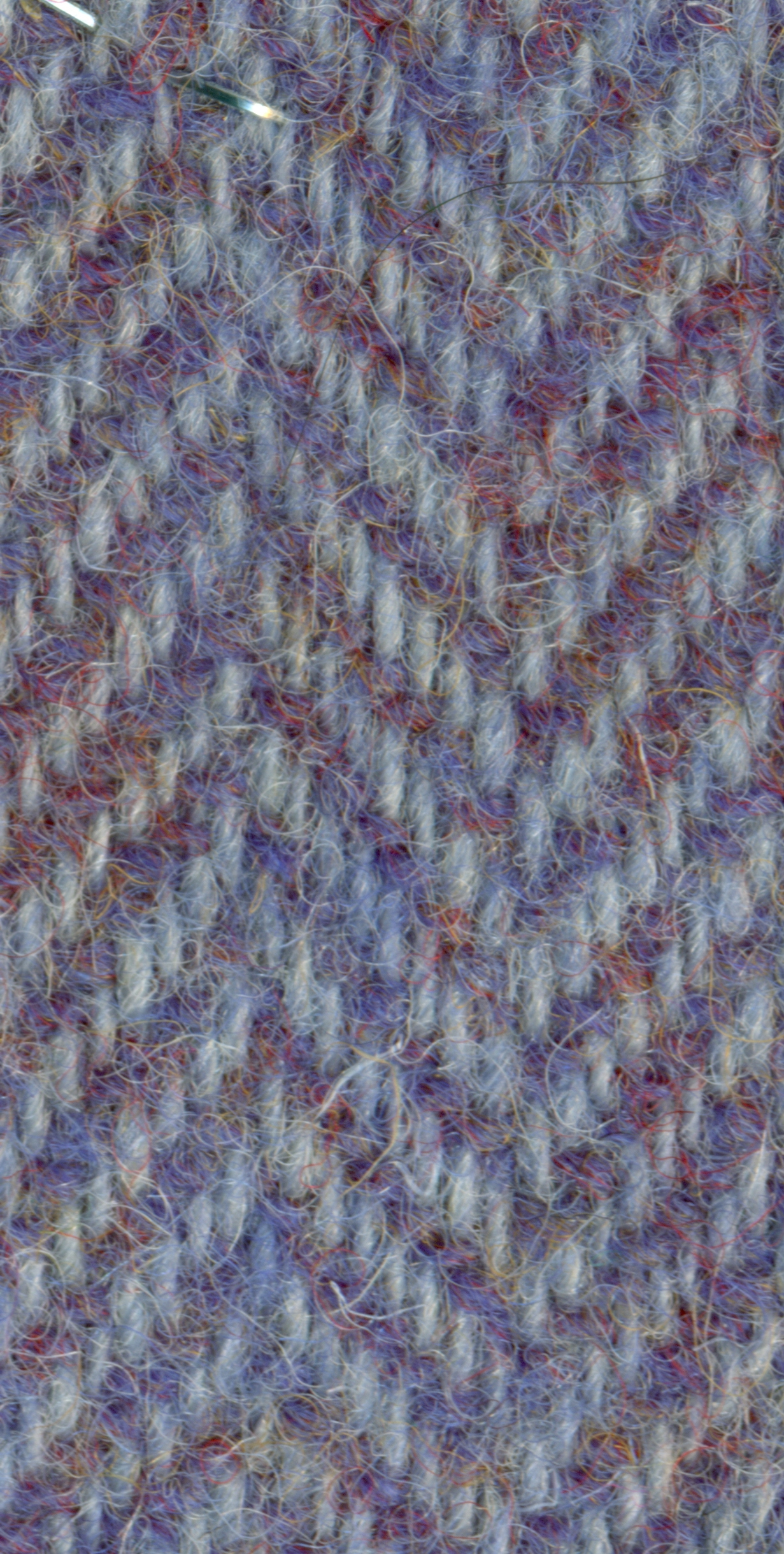 2D-scan of a cloth sample of Harris Tweed (herringbone). Handwoven woolen cloth from the Outer Hebrides.